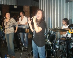 Arribas Bar Urbano concert Jul 7, 2006